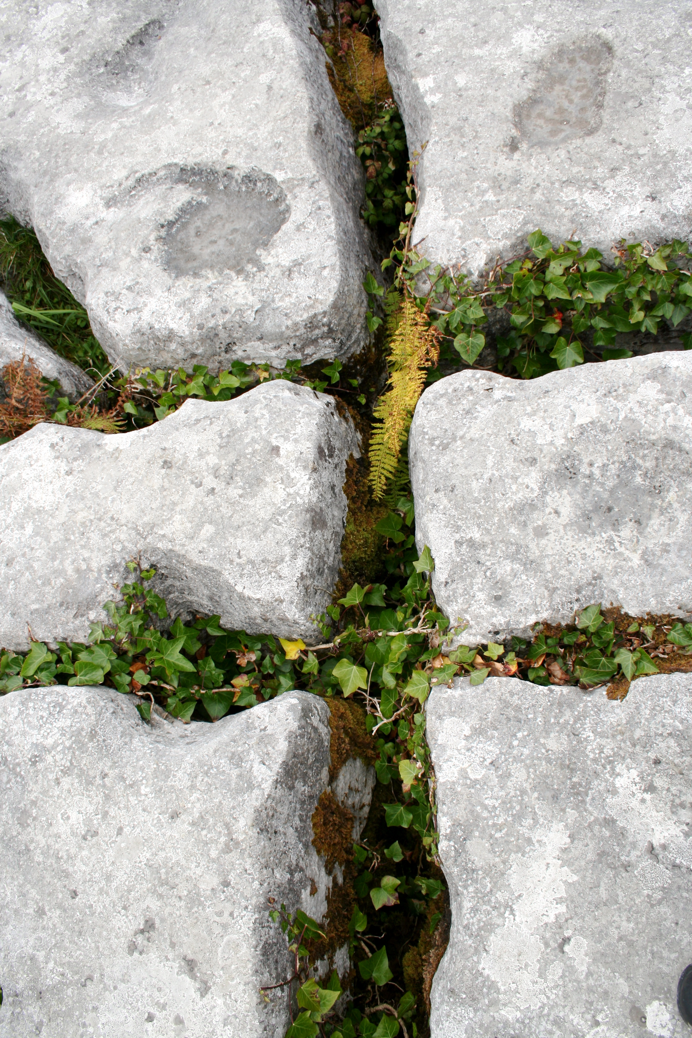 The Burren, Ireland